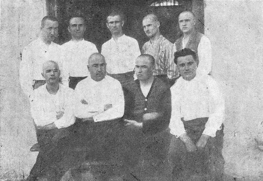 Members of MMTRO (Youth organisation of IMRO) in serbian jail. Ivan Mihailov - (down) D. Ghiuseleff, D. Netzeff, B. Andréeff, B. Svétieff; (up) St. Bozdoff, Har. Foukaroff, D. Tchkatroff, Jv. Chtopoff, T. Ghitcheff.